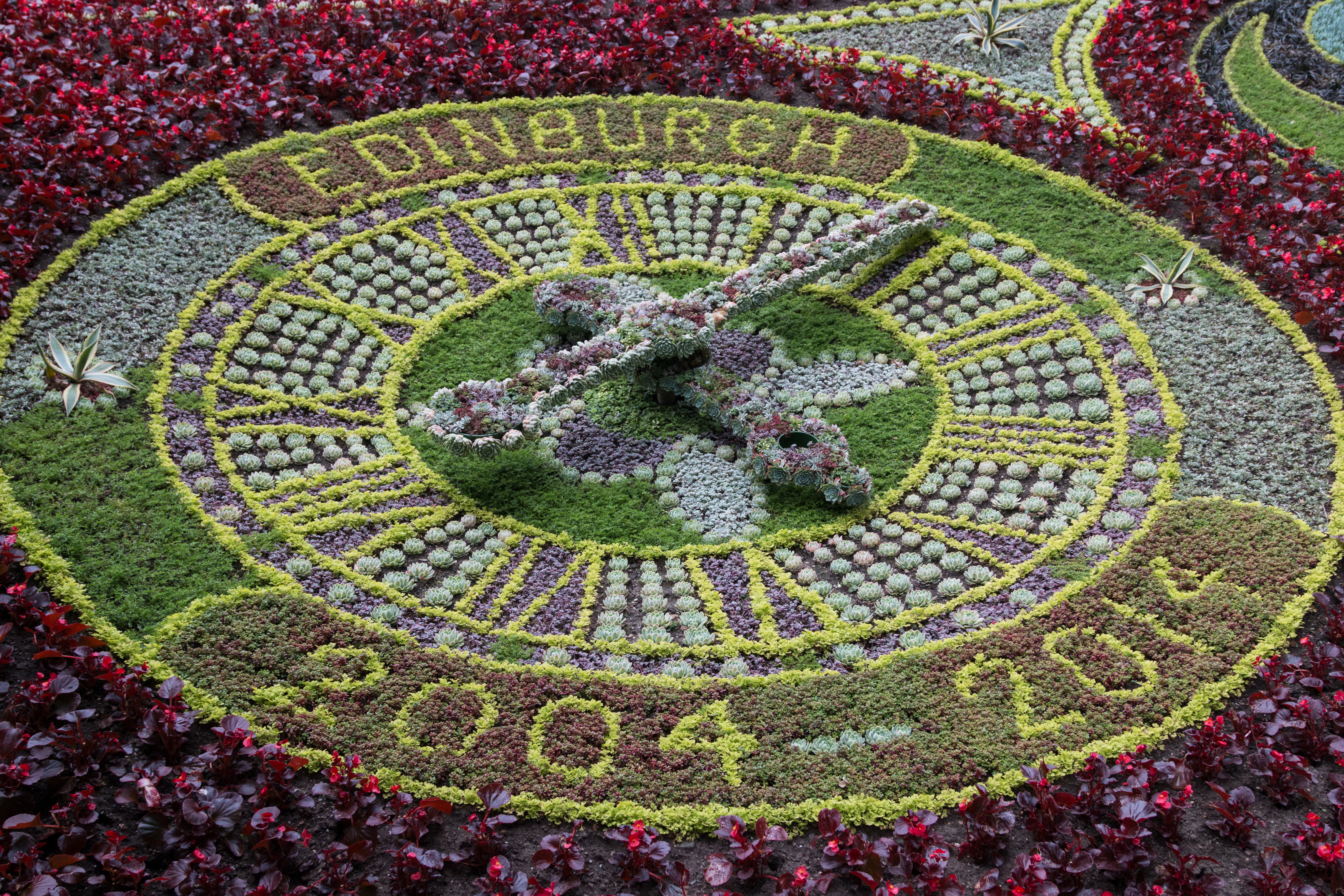 Floral Clock at the Princess Street Gardens in Edinburgh, Scotland, June 2014.